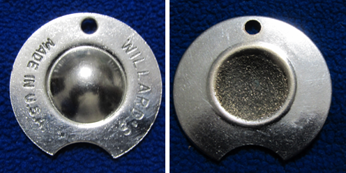 Que Tip Shaper, front and back view